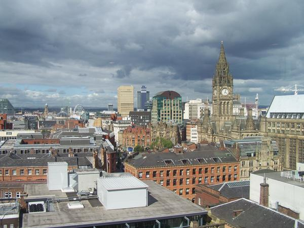 An image of part of the Skyline of Manchester.